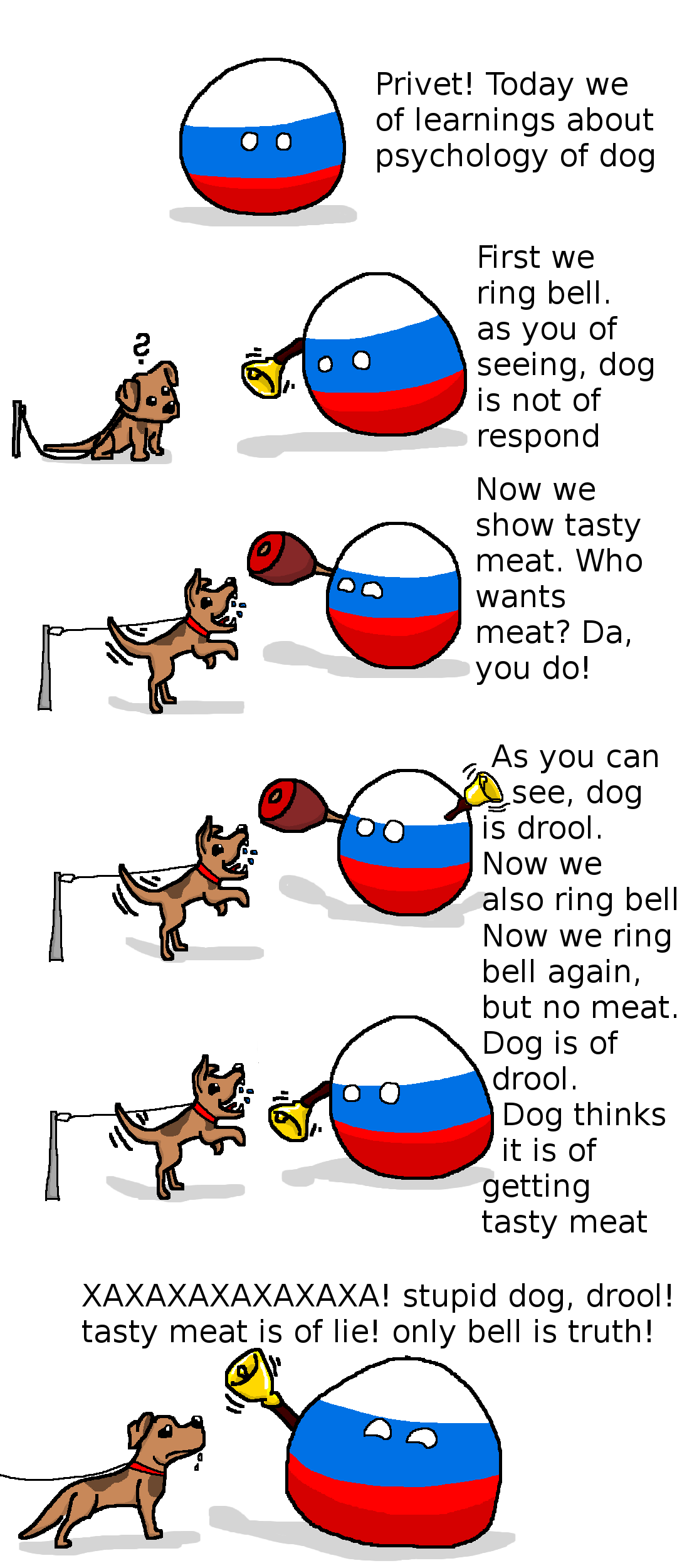 Polandball comic part of a "Russia Hates Dogs" series - Part 1 - Pavlov's dog